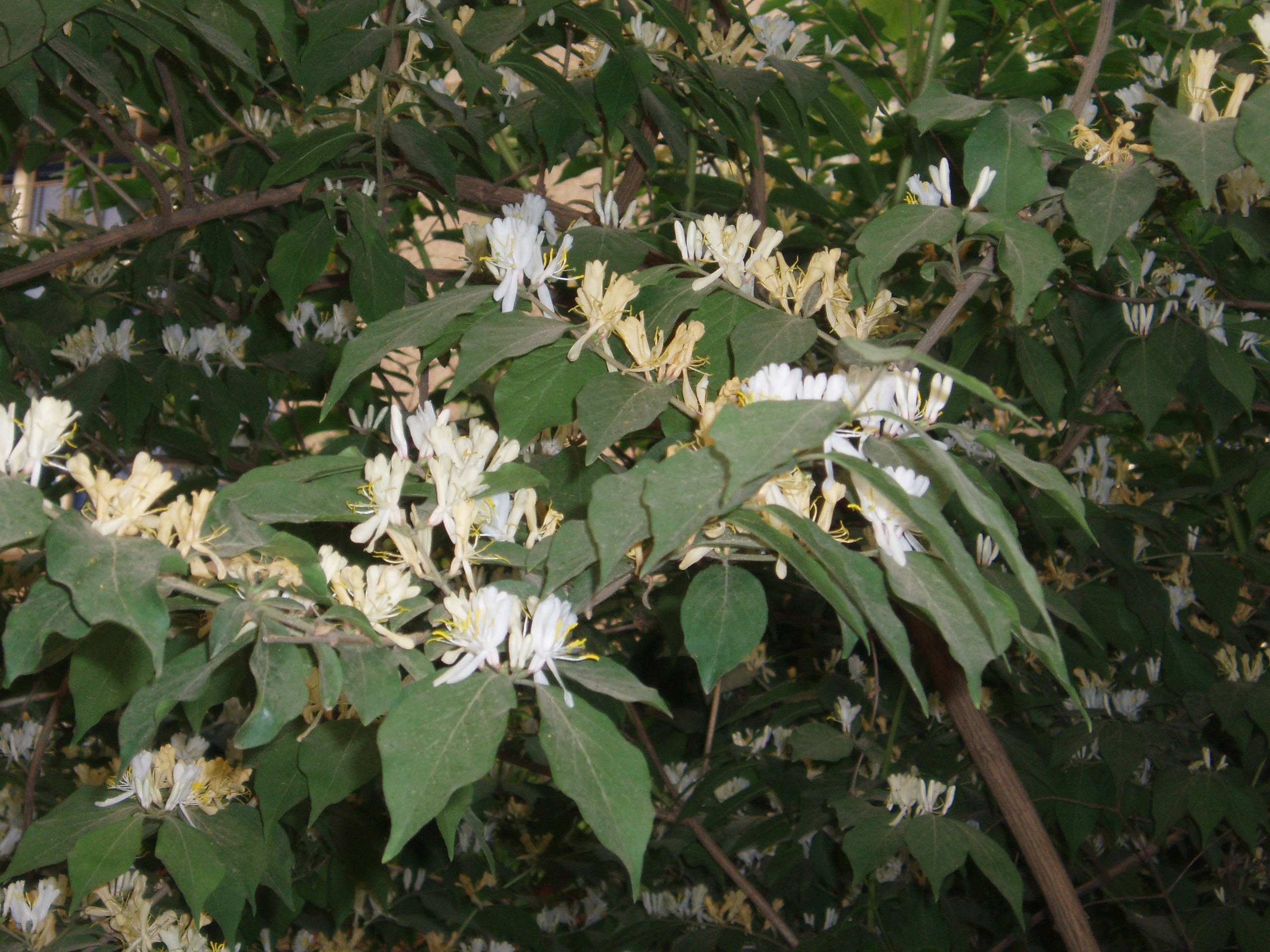 Amur honeysuckle flowers